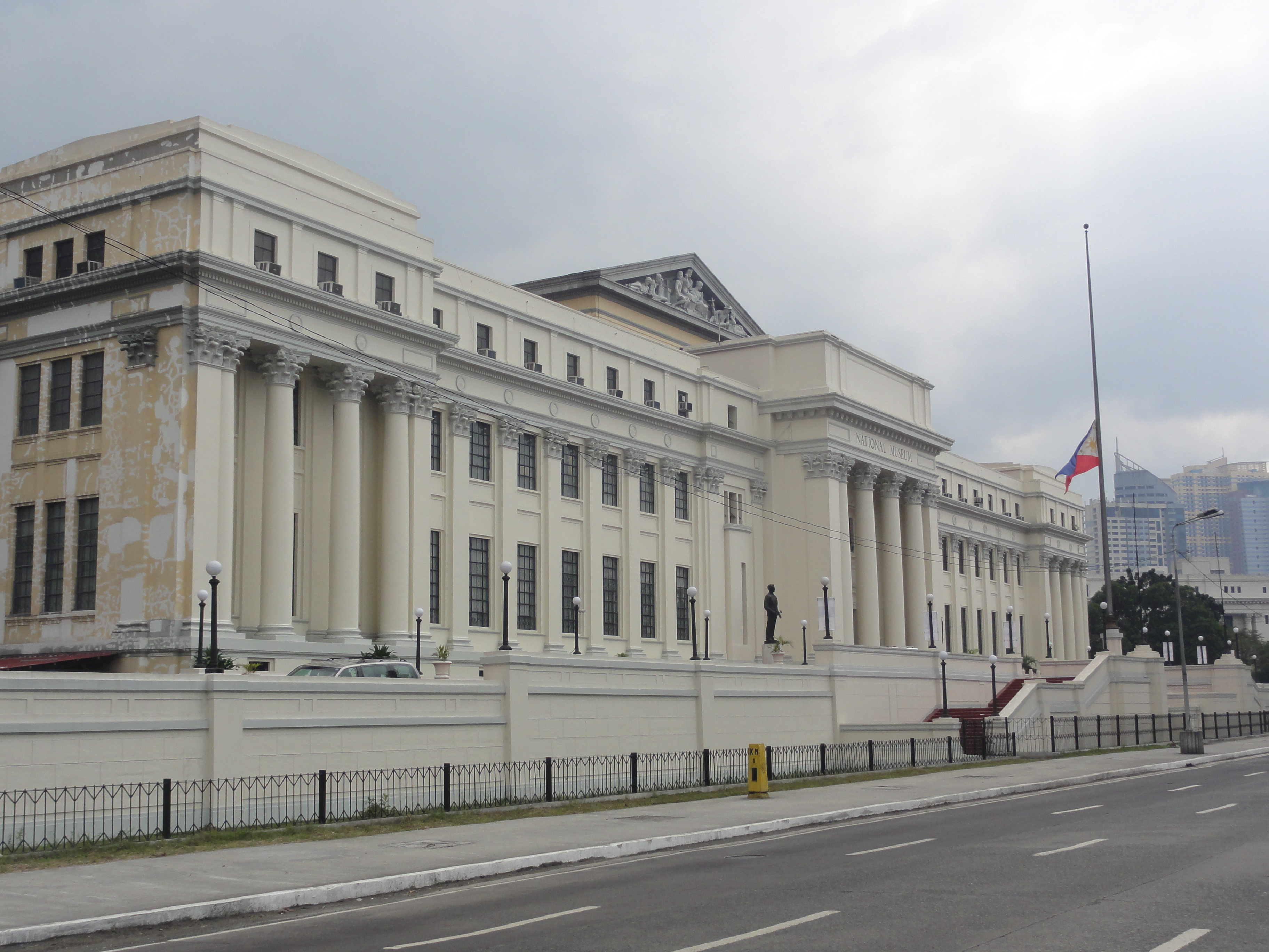 Front view of Manila's Old Congress Building, now the National Museum (as of January 2015)